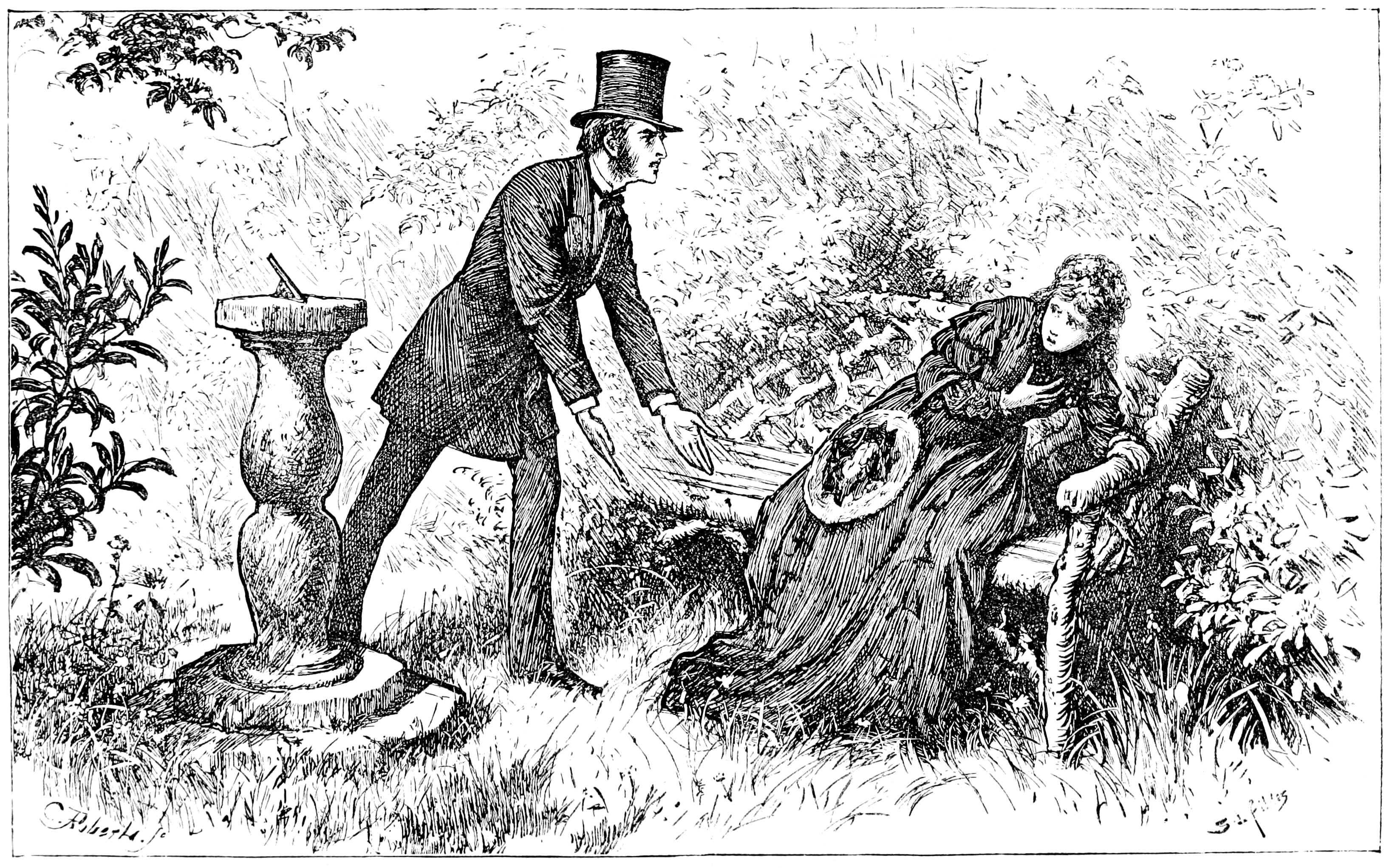 Illustration from the book, The Mystery of Edwin Drood, written by Charles Dickens, illustrated by Luke Fides